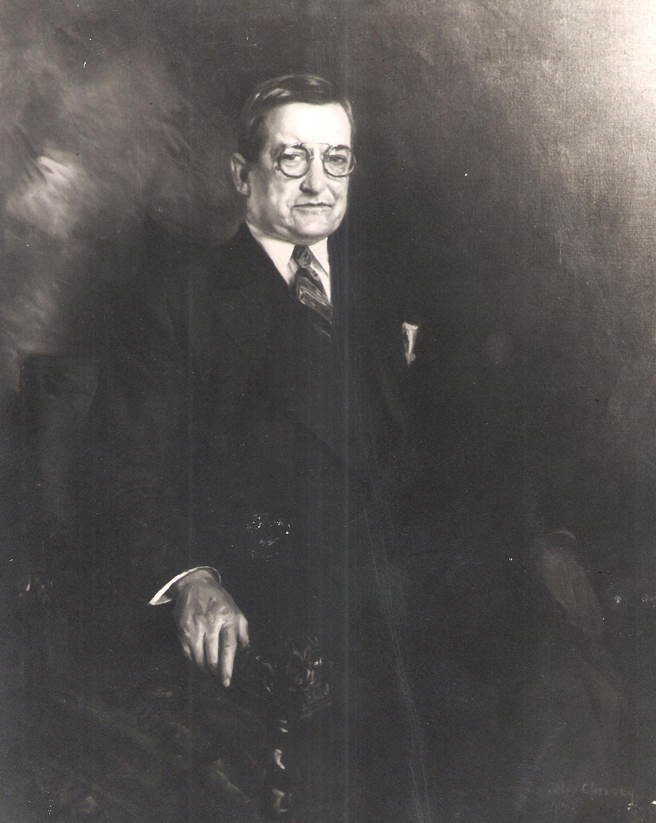 public portrait on display at suffolk